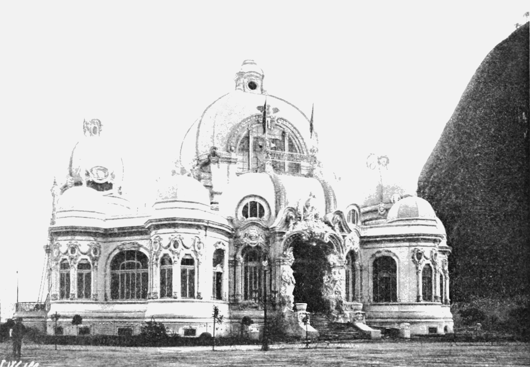 The San Paulo pavilion at the exhibition